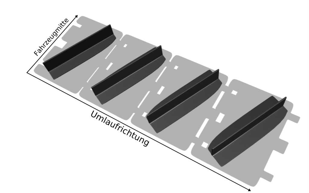 Schematische Anordnung der Paddelbleche von Donald Roeblings Alligator II&III Schematic setup of the paddle cleats of Donald Roebling's Alligator II&III. The labels are: "Umlaufrichtung"="Rotating direction" and "Fahrzeugmitte" = "Middle of vehicle".